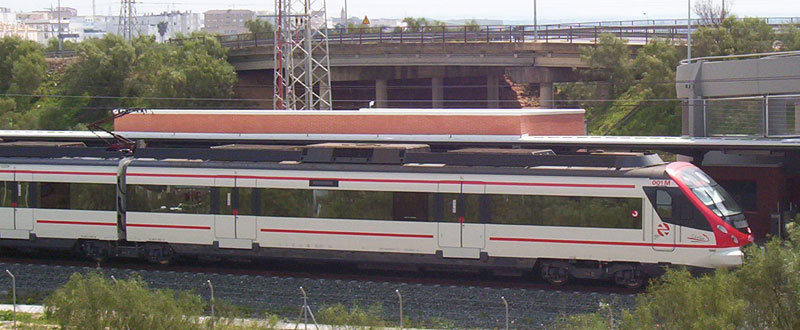 Exterior view of a new train of Cercanías RENFE in Spain. Pic taken by me on April the 4th, 2005. This picture was taken near the station of Universidad near the village of Puerto Real, Cádiz, Andalusia.